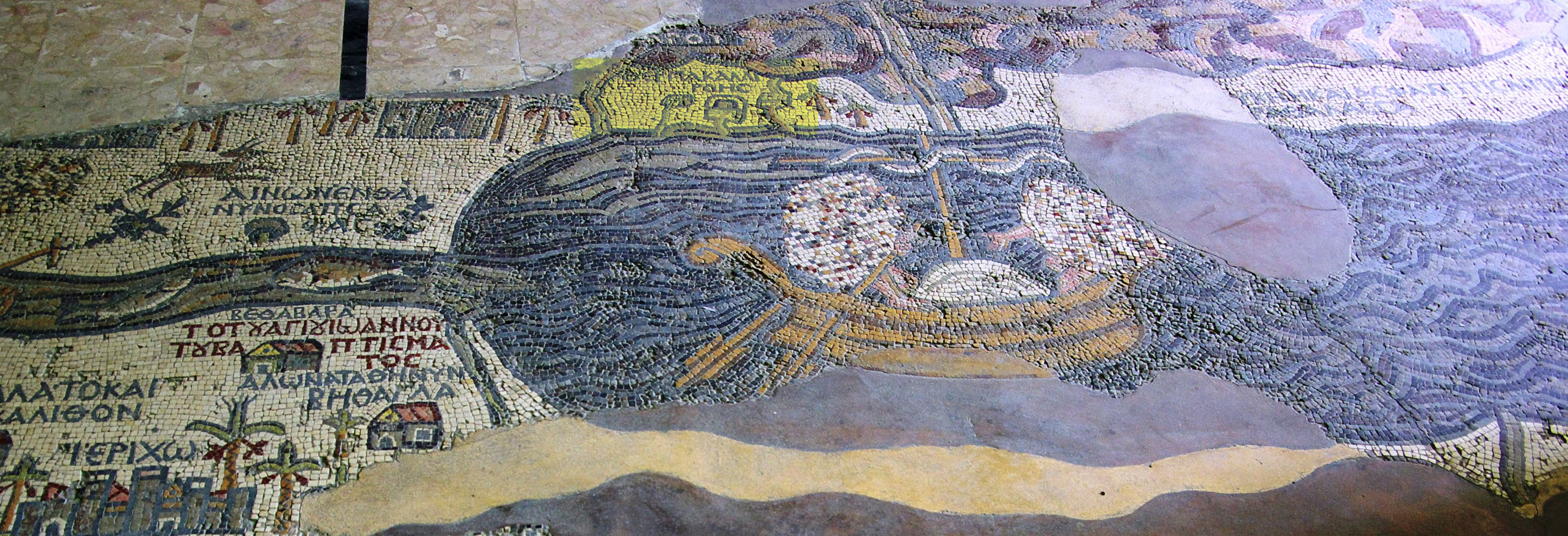 The hot springs of Callirhoe, Jordan (highlighted), on the north-eastern shores of Dead Sea, as depicted in the Madaba map. The map includes Jericho and Baarou